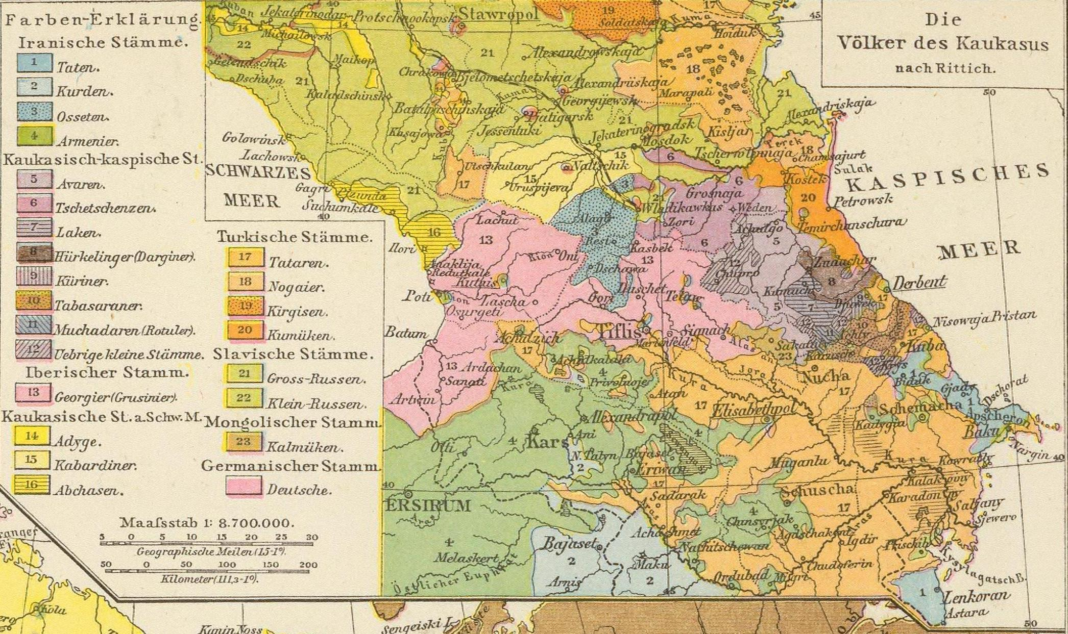 Volkerkarte von Russland. (with) Die Volker des Kaukasus nach Rittich. (with) Finnischer Meerbusen. (Richard Andree. Herausgegeben von der Geographischen Anstalt von Velhagen & Klasing in Leipzig. 1881)